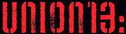 The logo for Union 13.